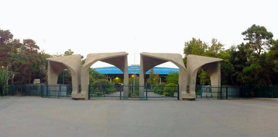 Tehran University's Southern Entrance